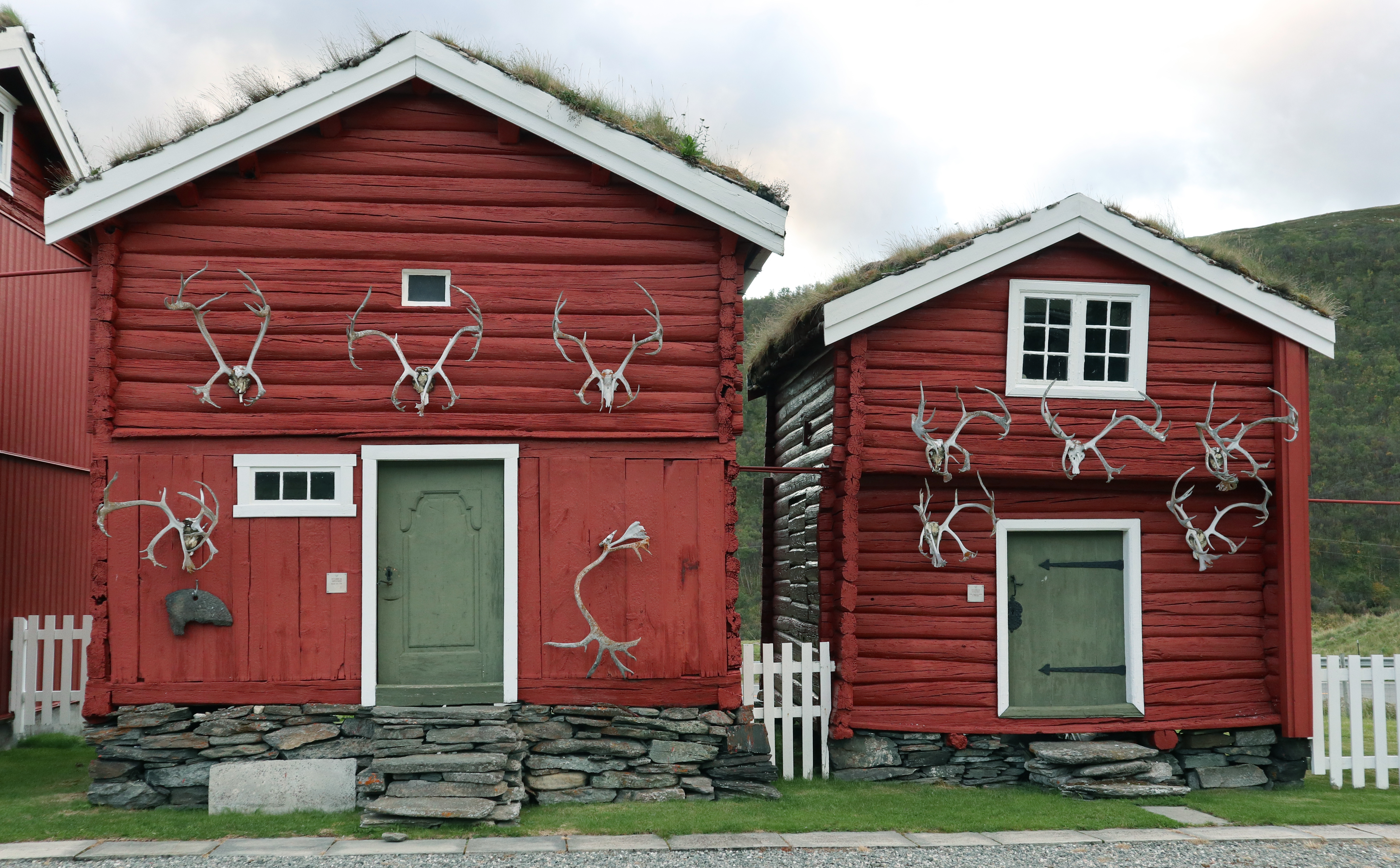 Kongsvoldfjeldstue. Two stabbur, north stabbur to the right, south to the left.